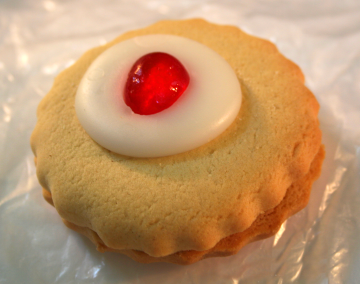 This is a German biscuit, also known as a Belgian biscuit, an Empire biscuit or a Euro biscuit. Two shortbread sweet biscuits (in US english: cookies), with jam between them, white icing, and a piece of glace fruit on top. very sweet Davidspiers 09:55, 12 August 2006 (UTC)david spiers